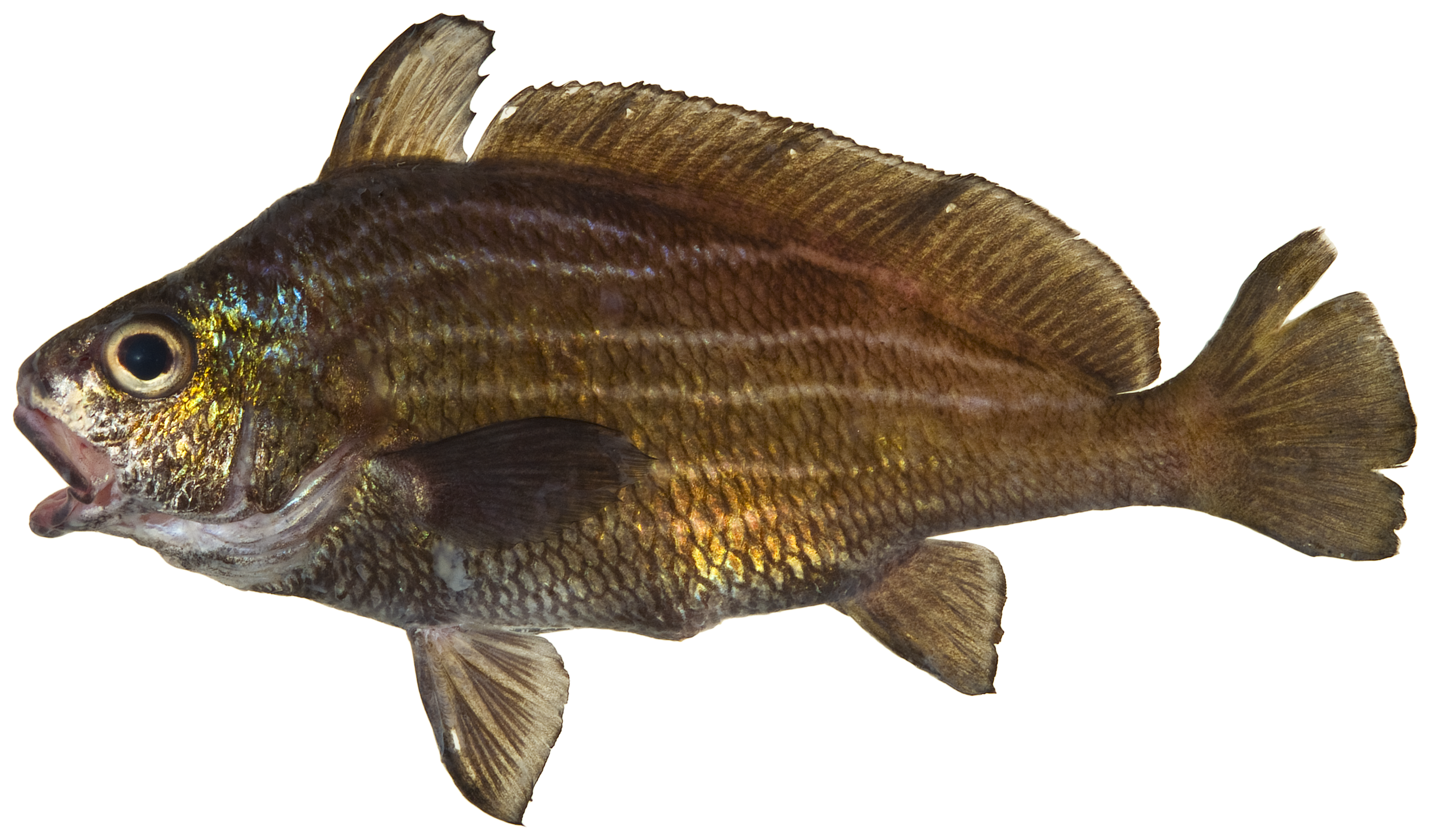 Pareques acuminatus (Bloch & Schneider, 1801)—high-hat, 150.0 mm SL. Photo by JT Williams.